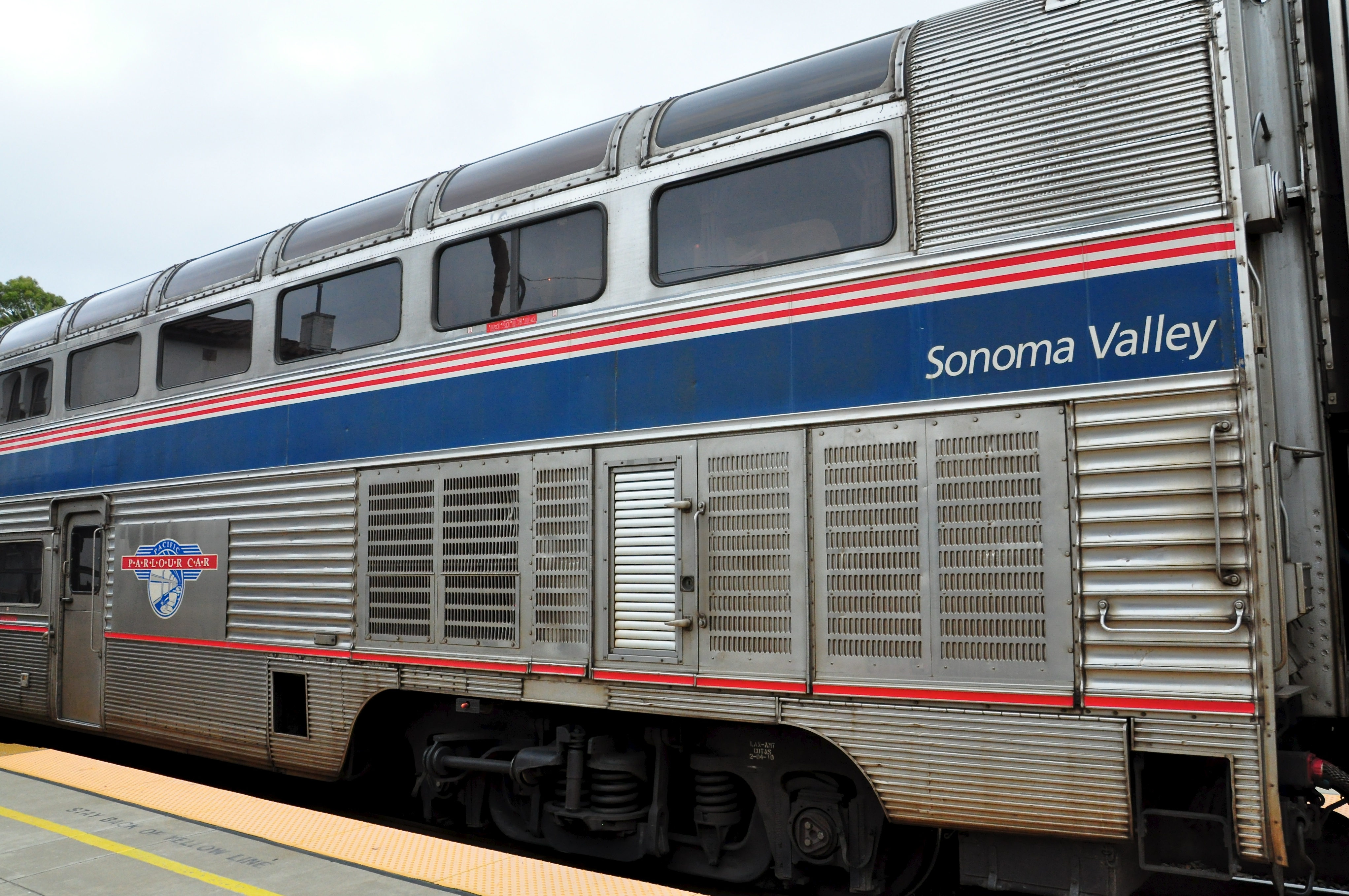 One of Amtrak's Pacific Parlor Cars, originally built for Santa Fe in the middle '50's.